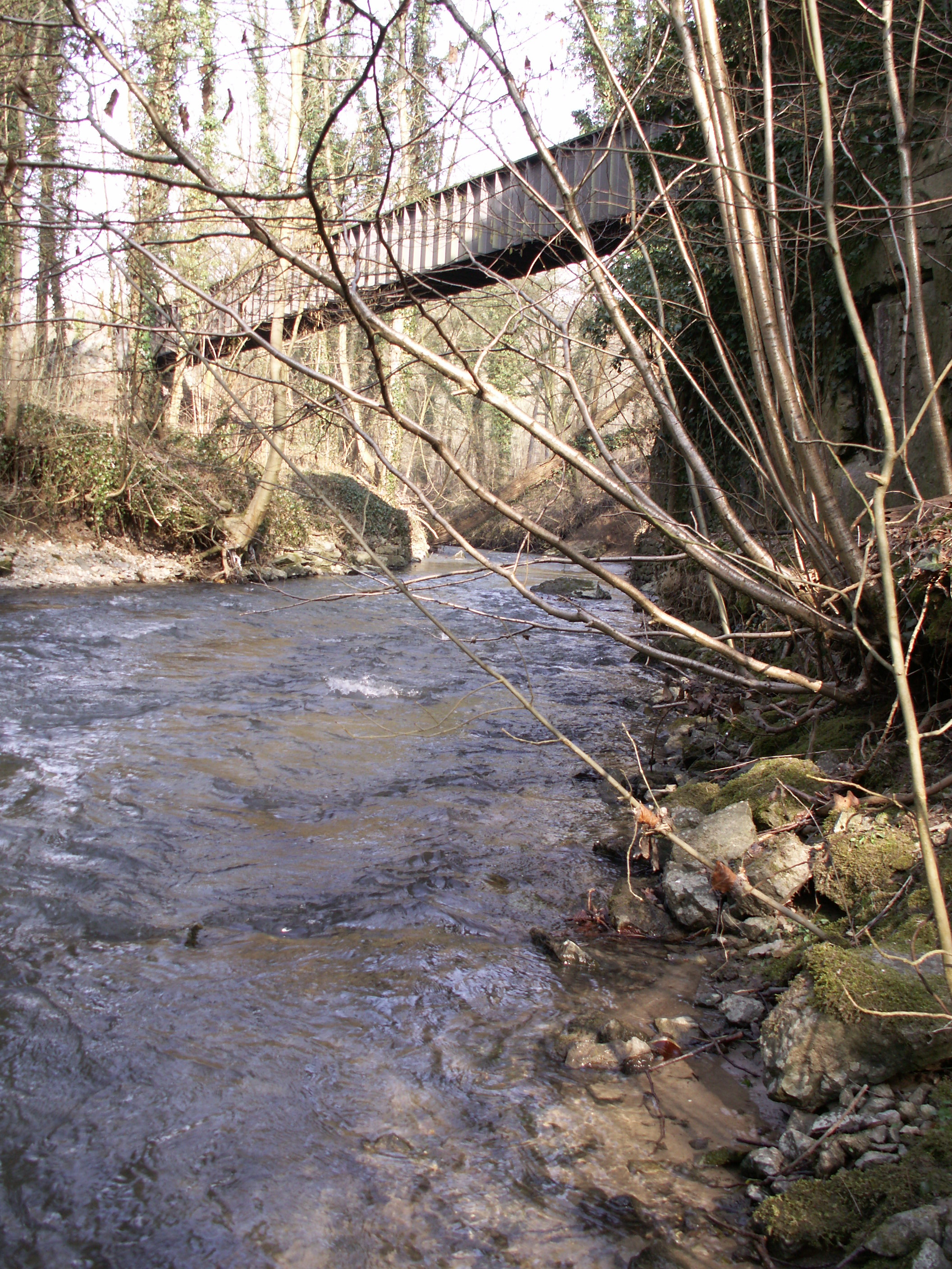 The river Düssel at the archaeological site of the Neanderthal man